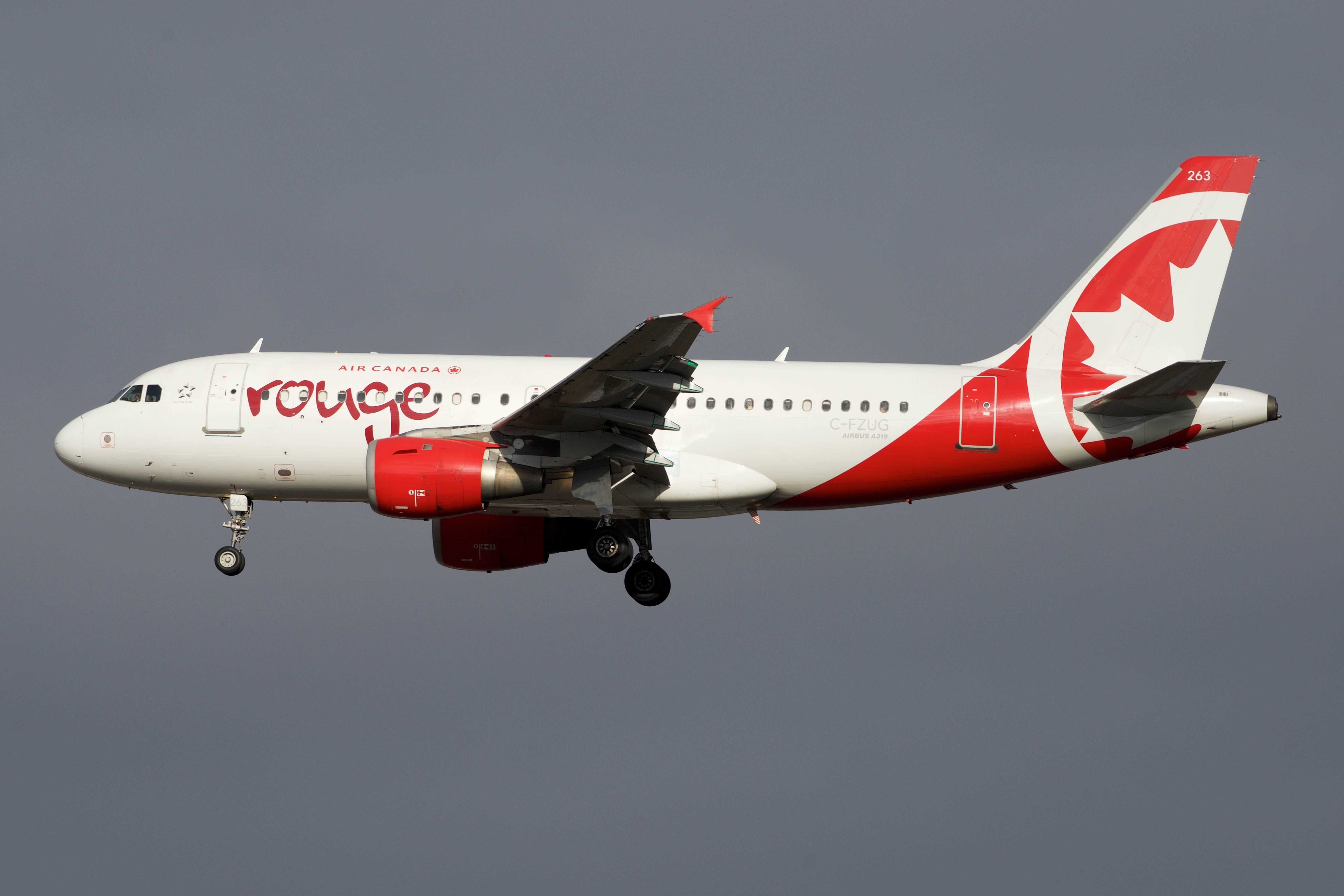 Approaching 33L YYZ